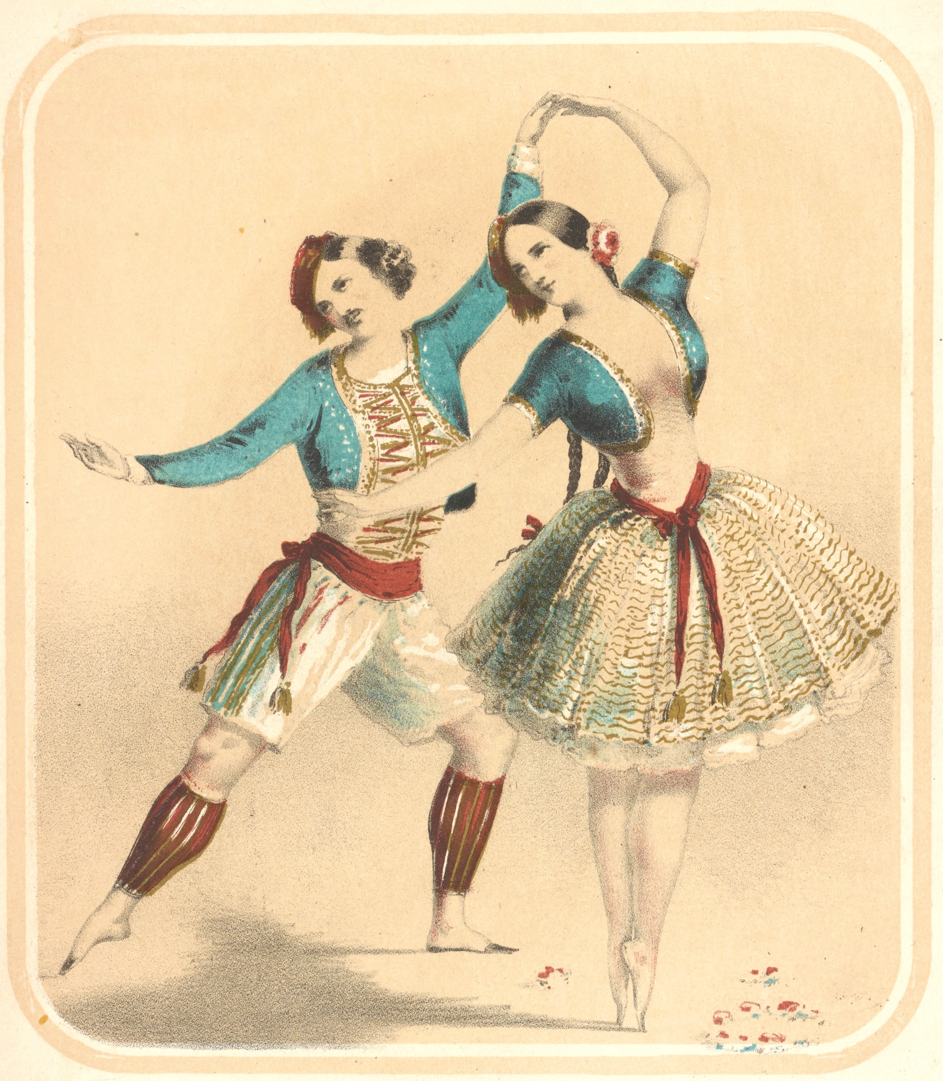 sheet music cover depicting dancersIppolito Monplaisir and his wife, Adèle Monplaisir (image cropped)